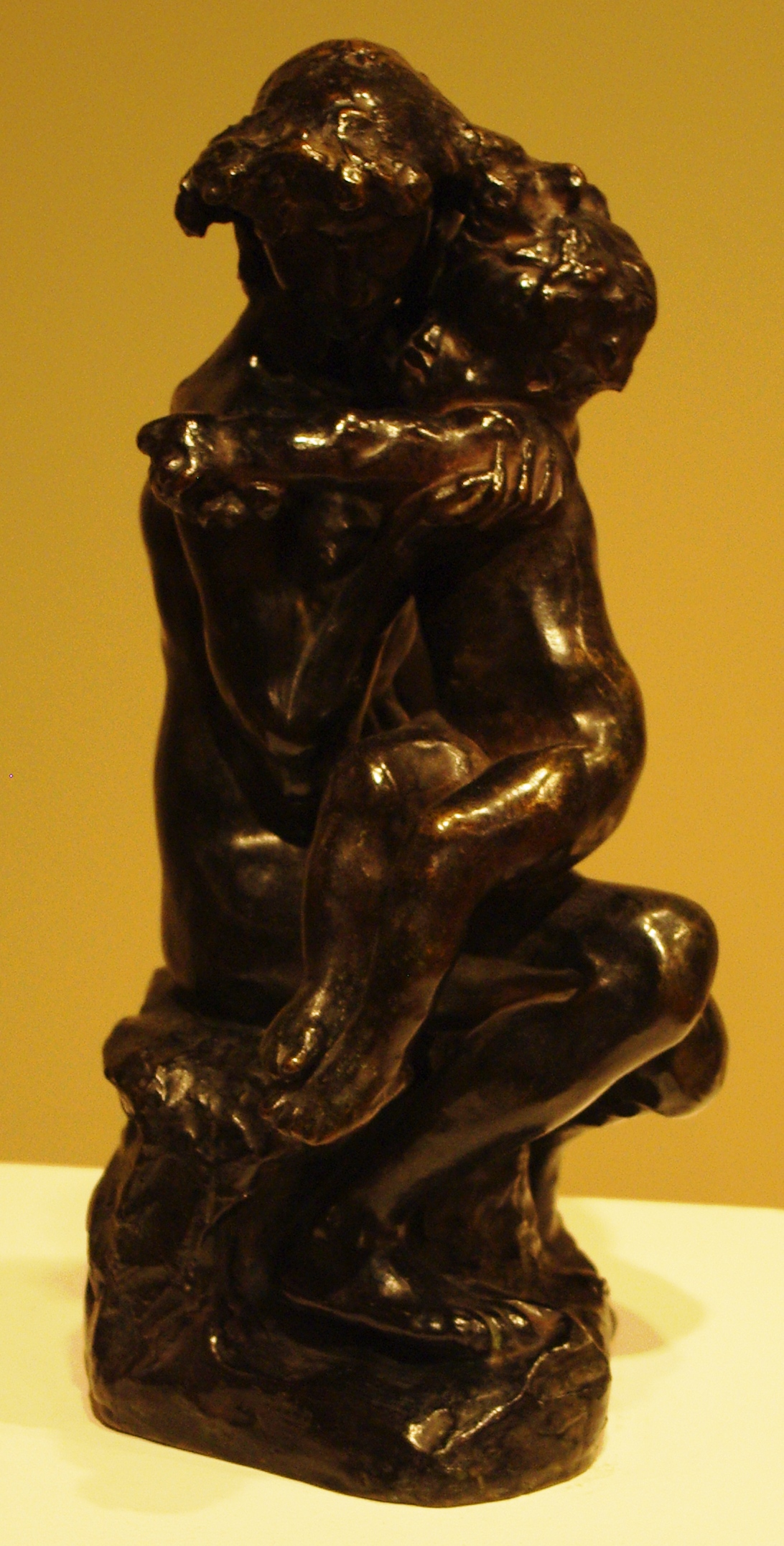 Brother and Sister by Auguste Rodin from 1890 on display at the Portland Art Museum in Oregon. Photograph of the work by M.O. Stevens.